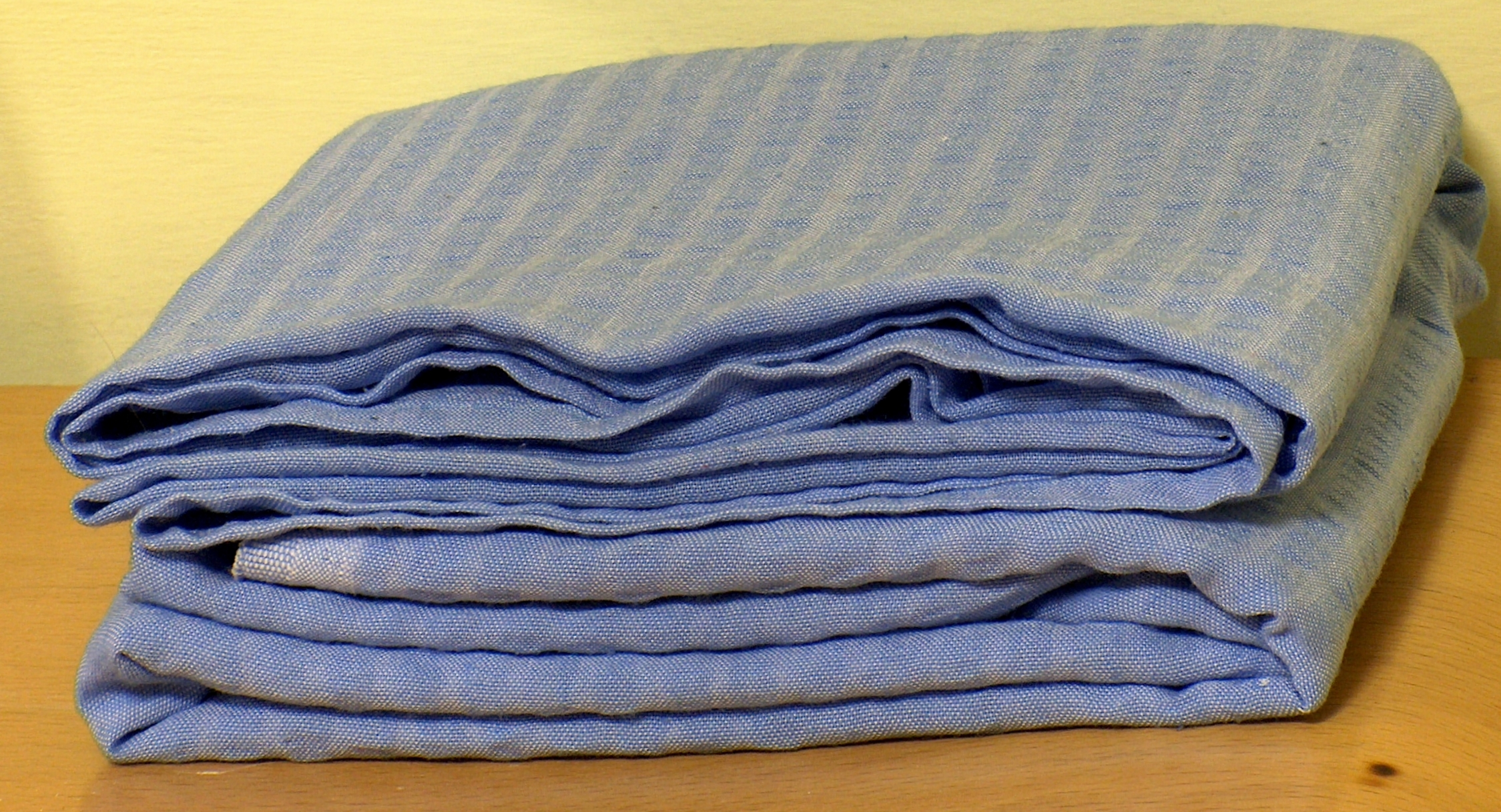 Bed sheet